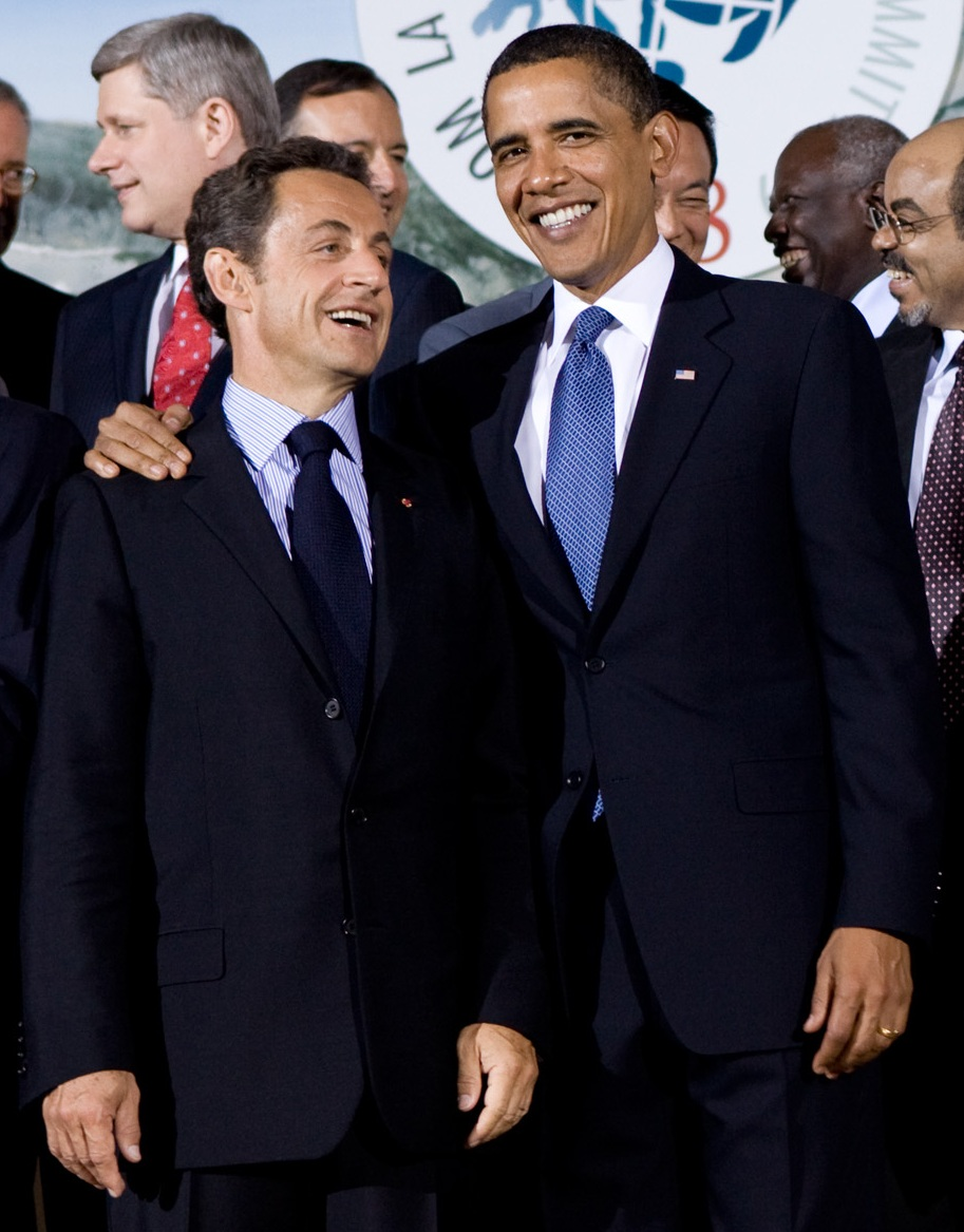 A cropped version of a "family" photo at the G-8 summit in L'Aquila, Italy, July 9, 2009. Nicolas Sarkozy, left, Barack Obama, right.